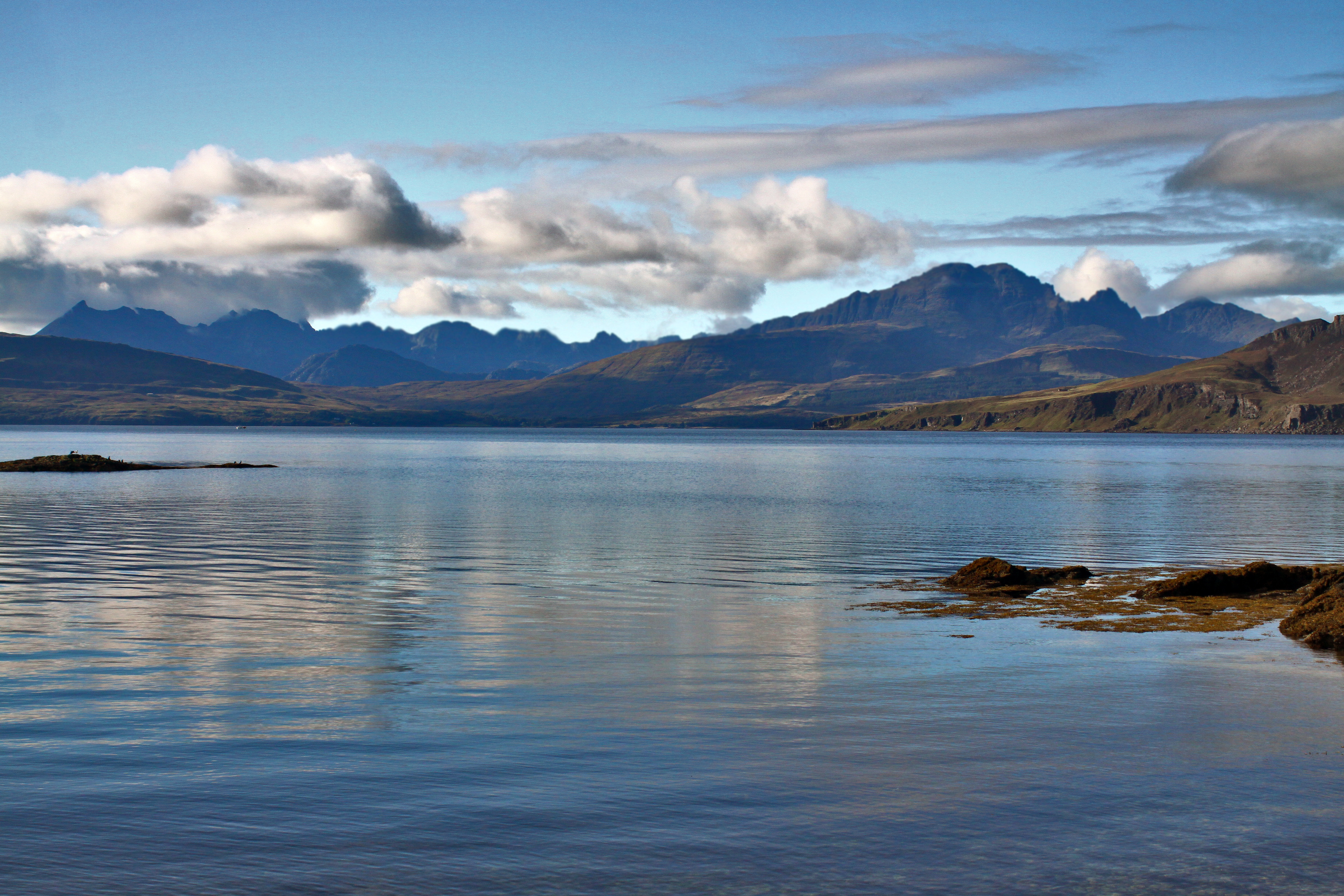 Standard 35mm lens just captures all the mountains